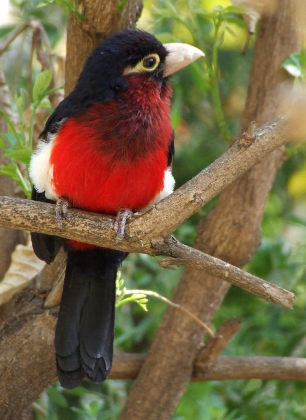 Double-toothed Barbet, closely related to the Bearded Barbet.